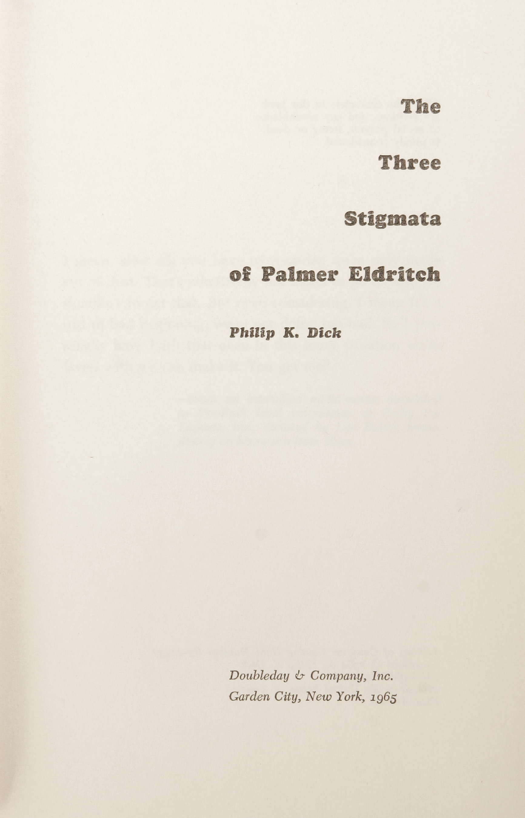 The Three Stigmata of Palmer Eldritch